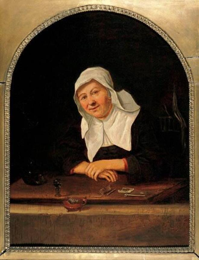 Old woman sitting at a table